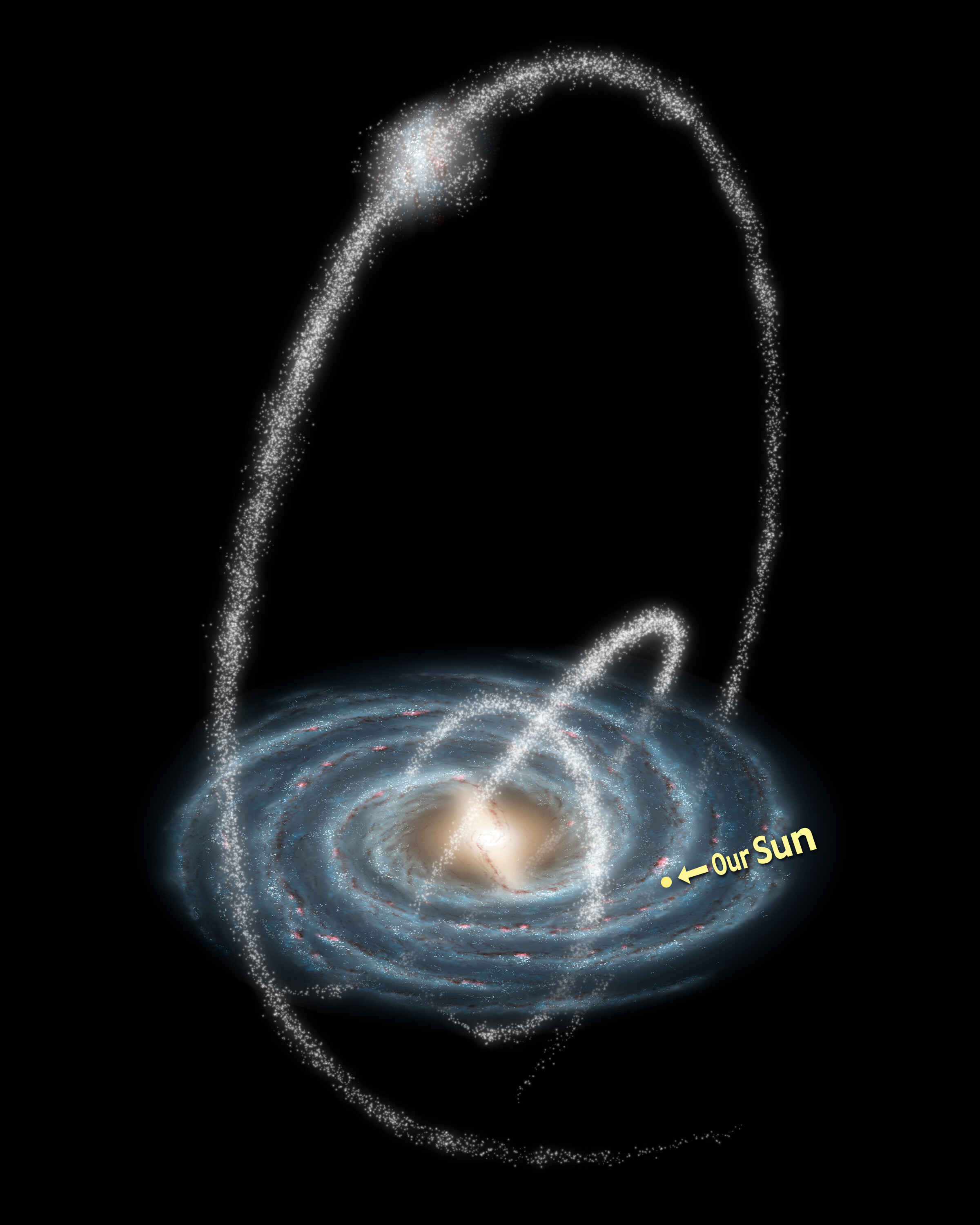 Stellar streams. From the souce: "Three newly-discovered streams arcing high over the Milky Way Galaxy are remnants of cannibalized galaxies and star clusters. The streams are between 13,000 and 130,000 light-years distant from Earth and extend over much of the Northern sky. Two of the newly discovered streams are almost certainly the remains of ancient star clusters, known to astronomers as globular clusters...."